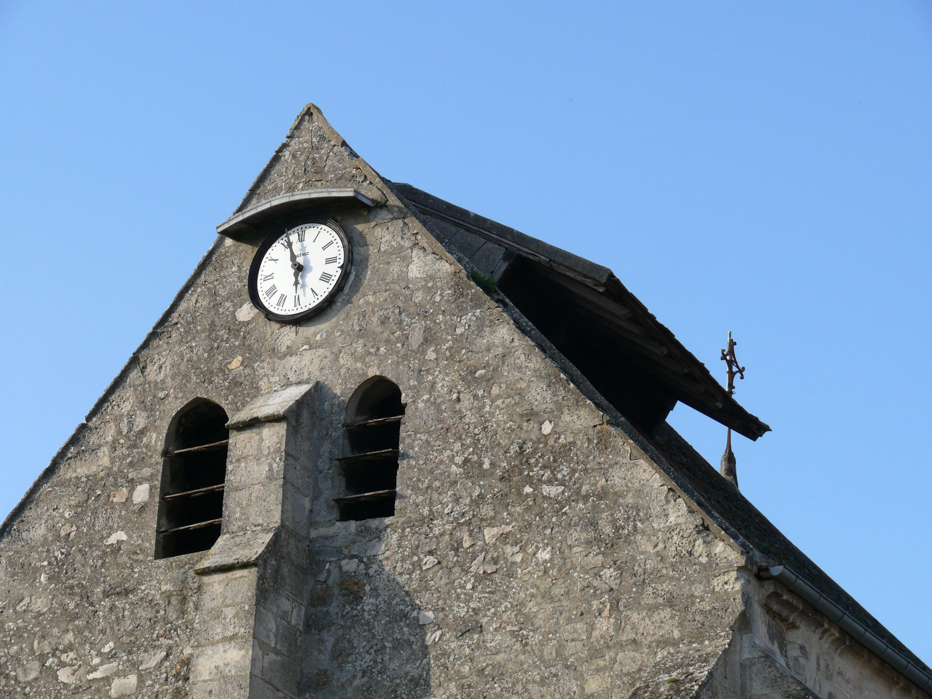 Saint-Martin's church of Ormoy-Villers (Oise, Picardie, France).